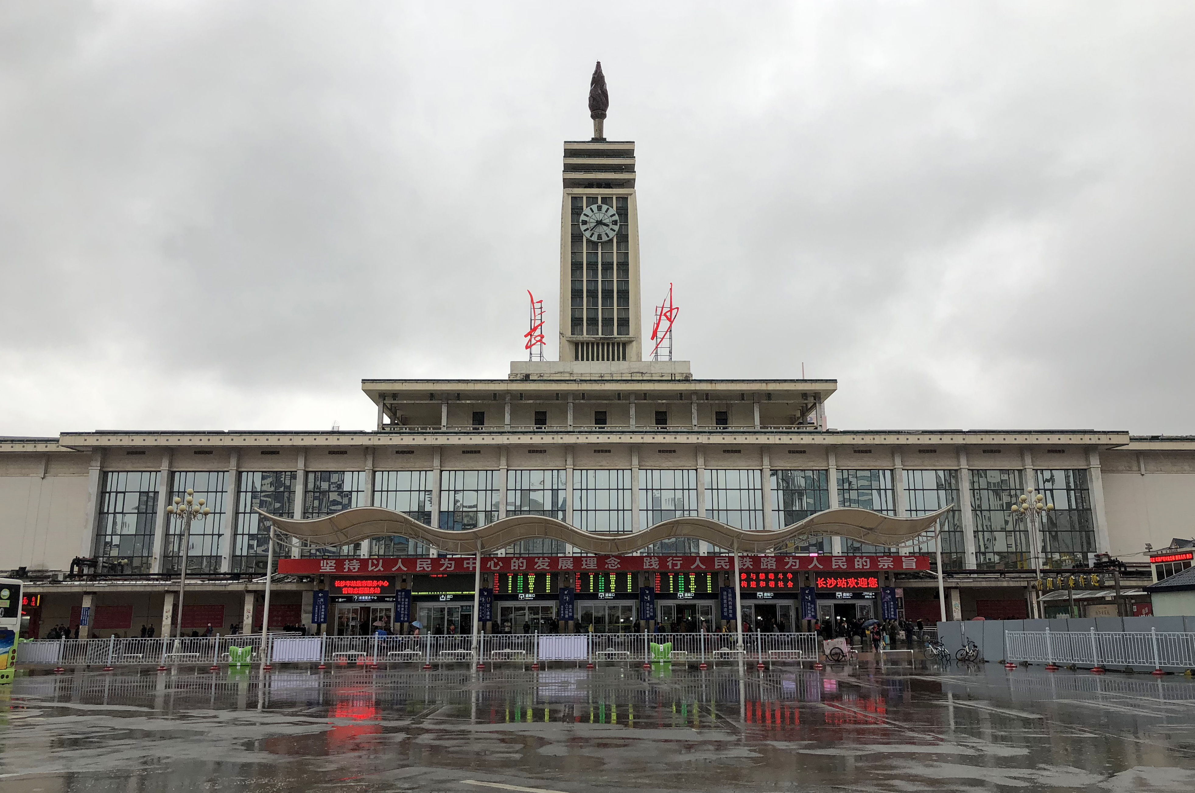 The station name was lit up, but the "huge chili pepper" wasn't.